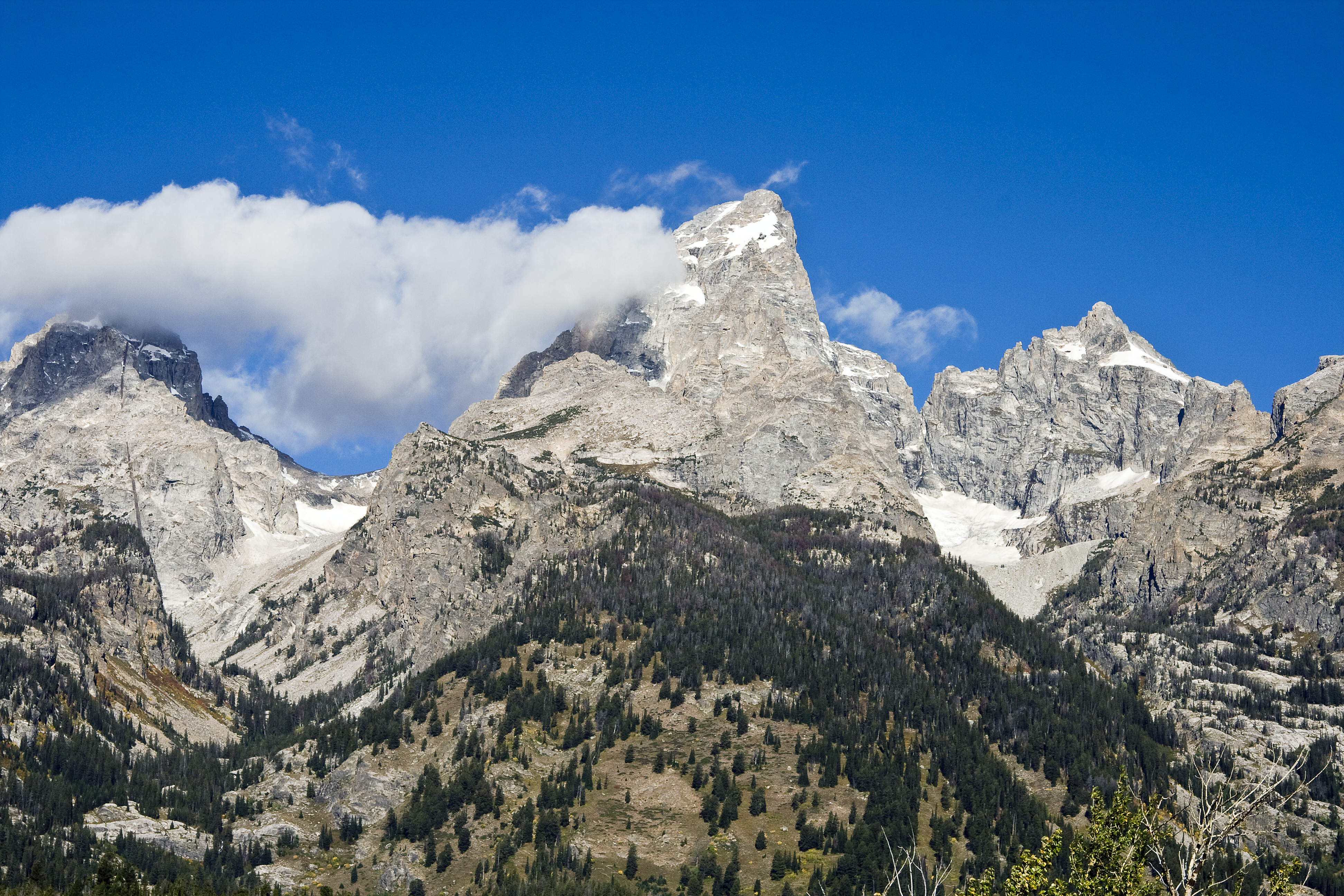 Disappointment Peak (center), hiding Grand Teton, with Middle Teton and Garnet Canyon on the left and Mt. Owen and Glacier Gulch on the right.